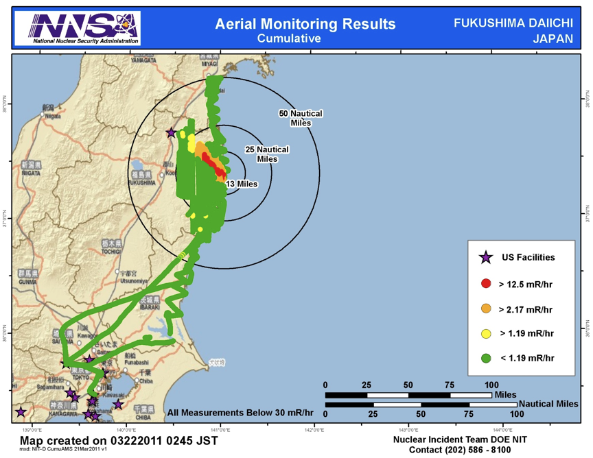 Aerial Measurement Systems data after more than 40 hours of flying